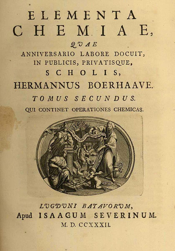 Hermann Boerhaave (1668-1738), Elementa chemimae, Title Page 1732, Volume 2